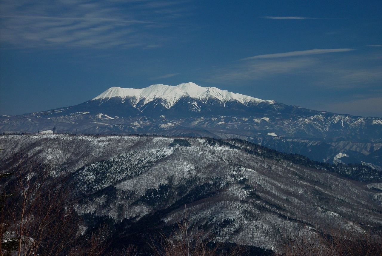 Mount Ontake and Mount Funa seen from Mount Kurai, in Gifu prefecture, Japan.